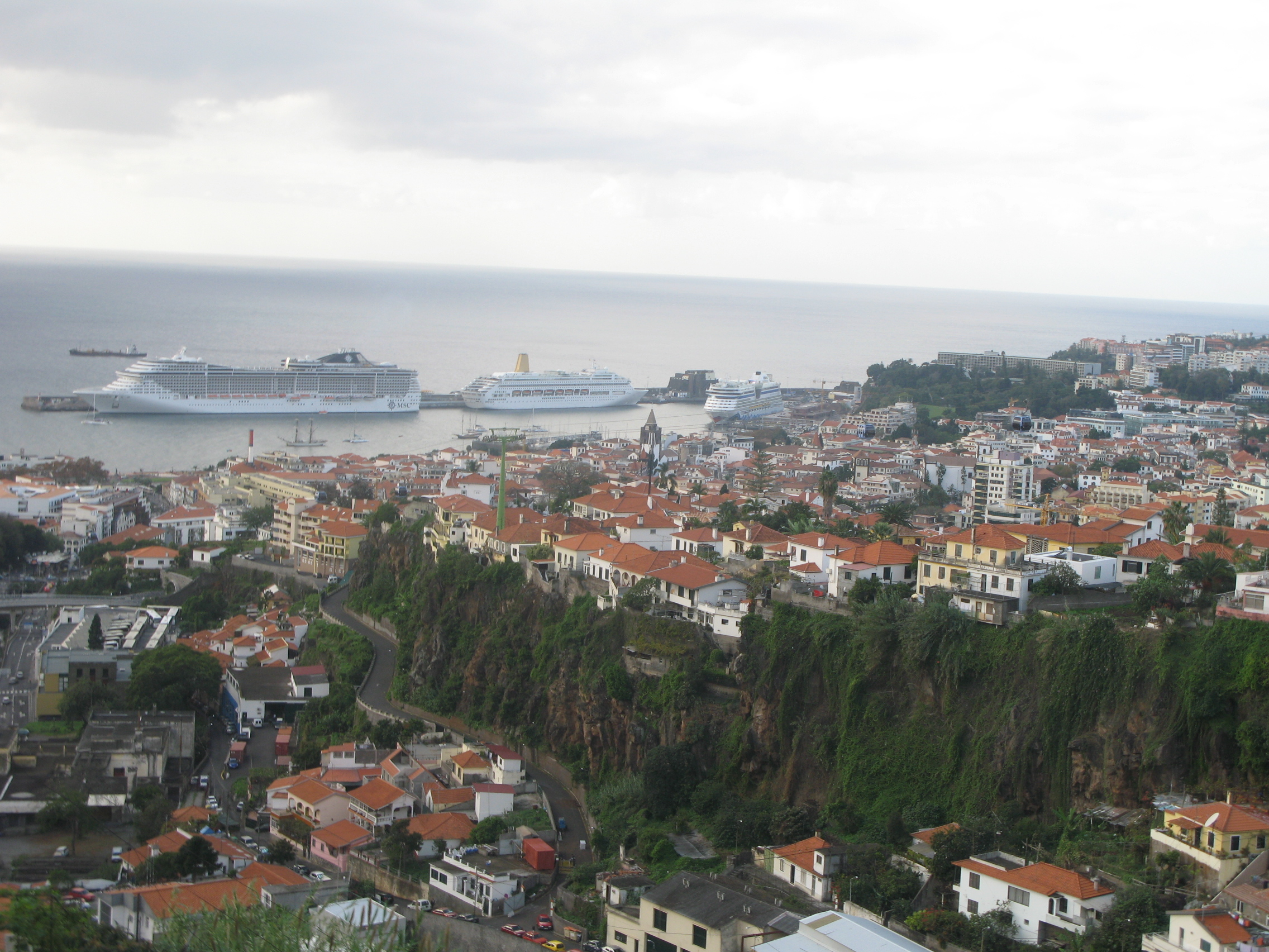 Funchal, capital of Madeira